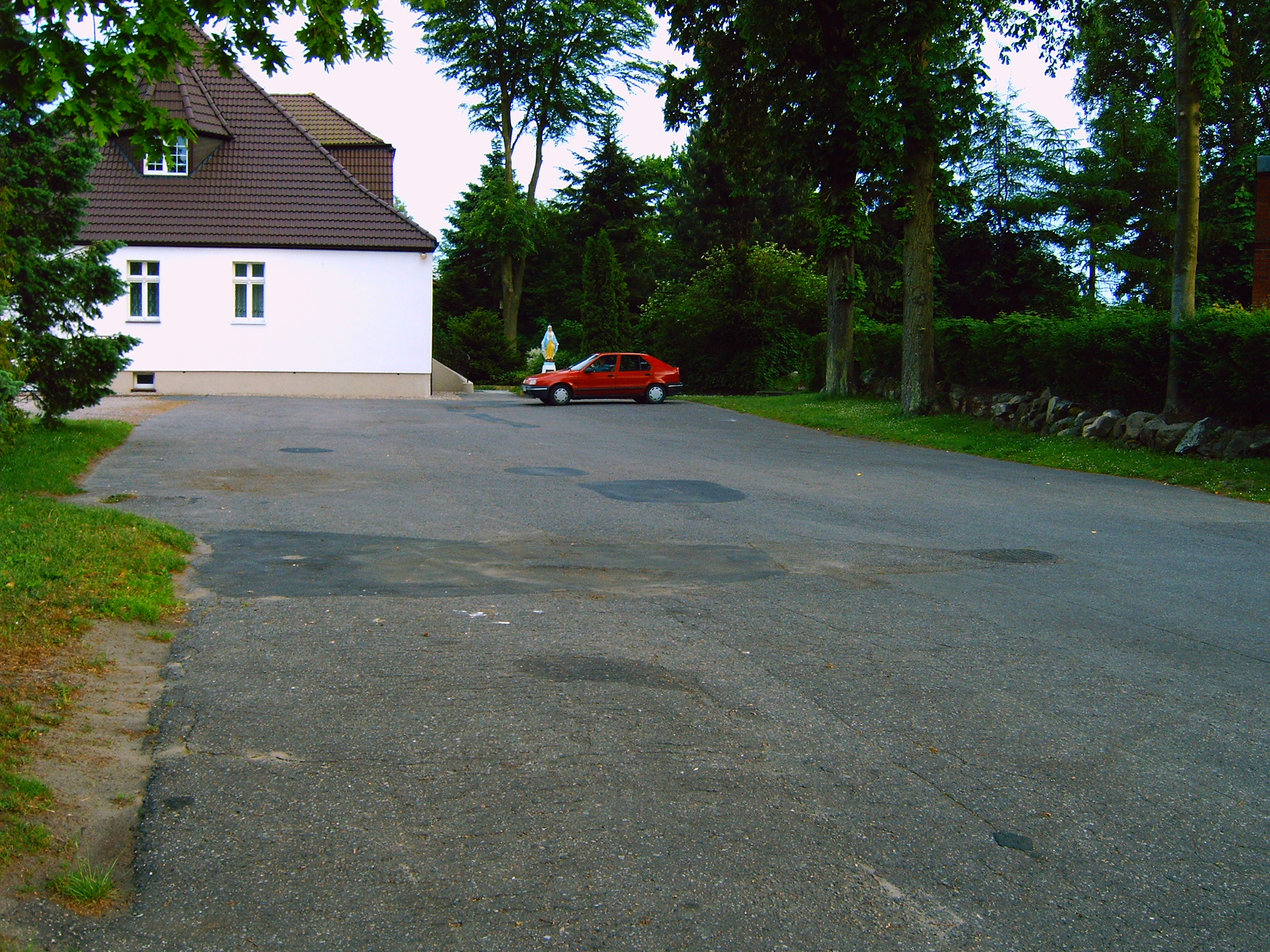 Poland, Mielno, Church of Transfiguration of Jesus, Parking lot